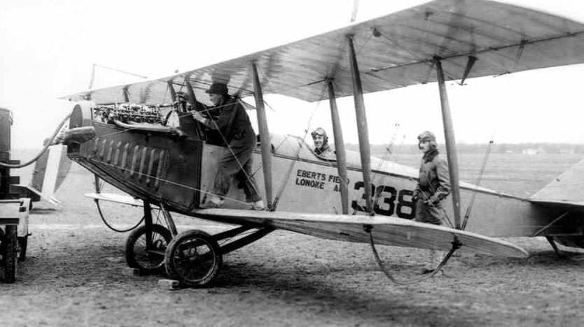 Curtiss JN-4 "Jenny" being refuled at Eberts Field, Arkansas, 1918